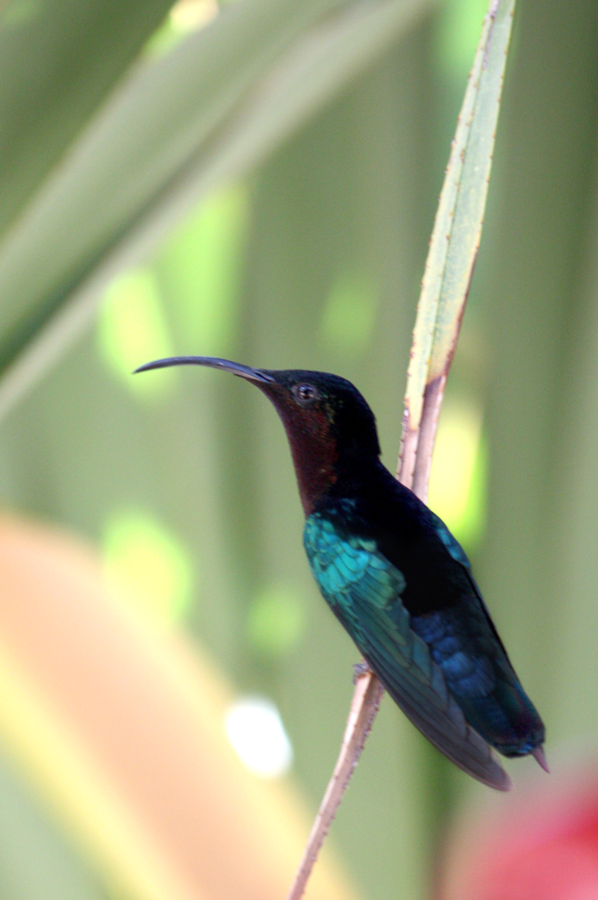 Purple-throated Carib hummingbird (Eulampis jugularis) perched on a palm frond. Batalie Beach, Dominica.